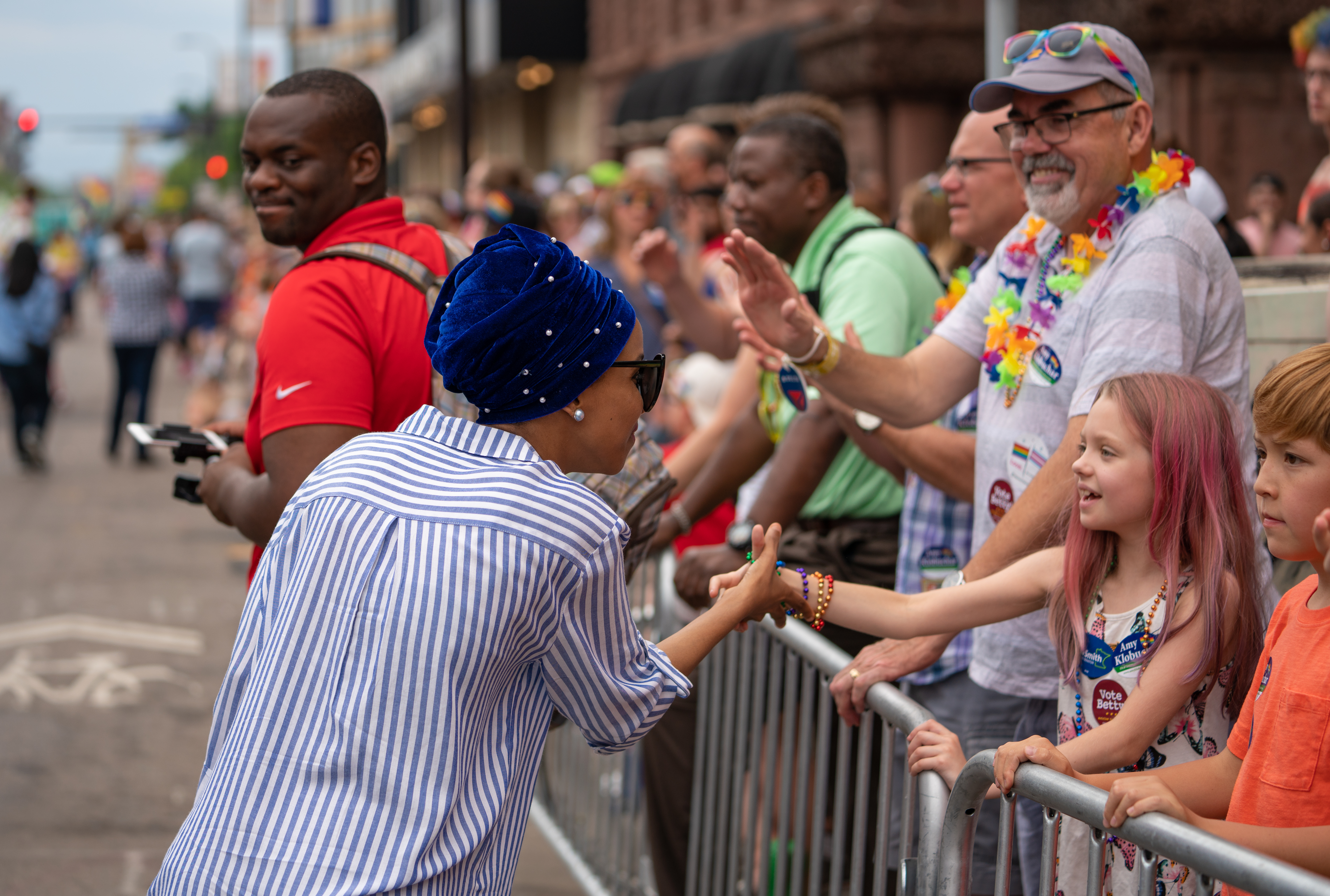 Twin Cities Pride Parade in Downtown Minneapolis, Minnesota, on June 24, 2018.